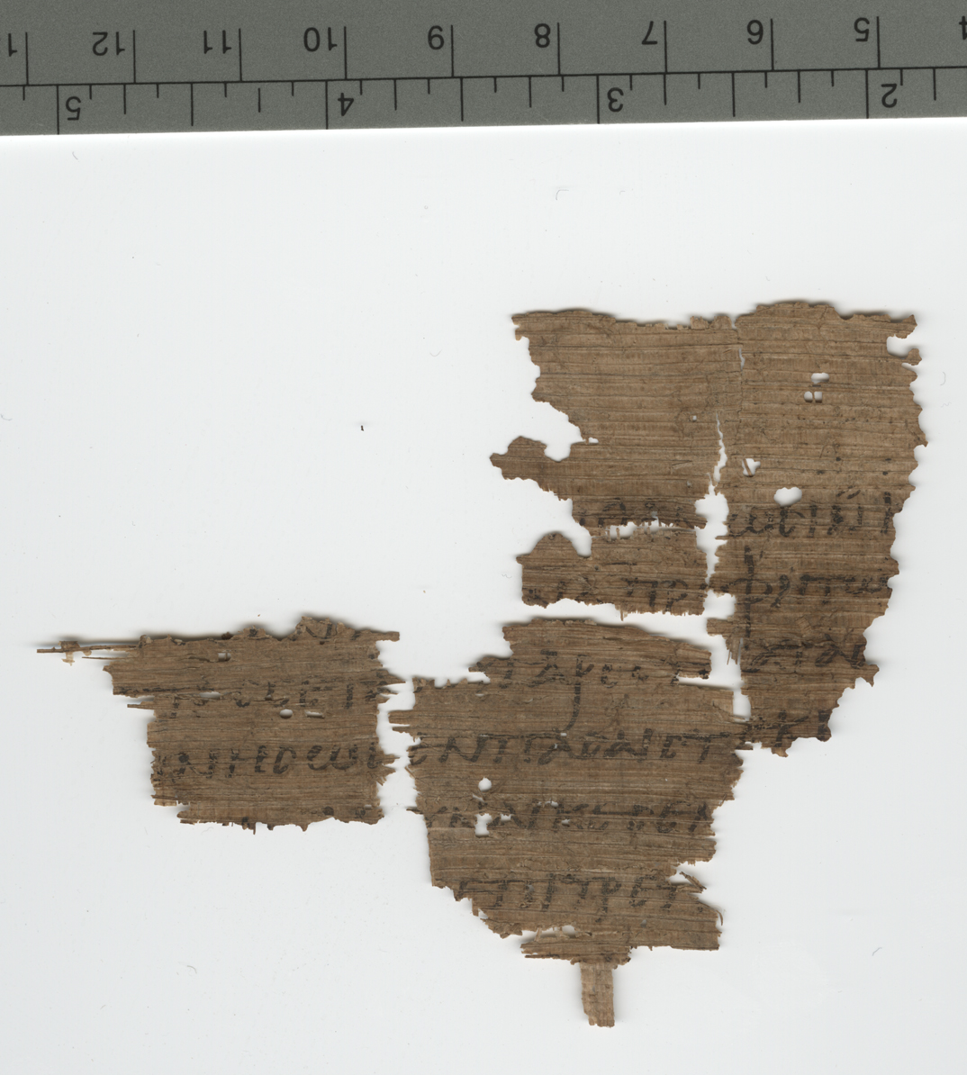 Papyrus 123R